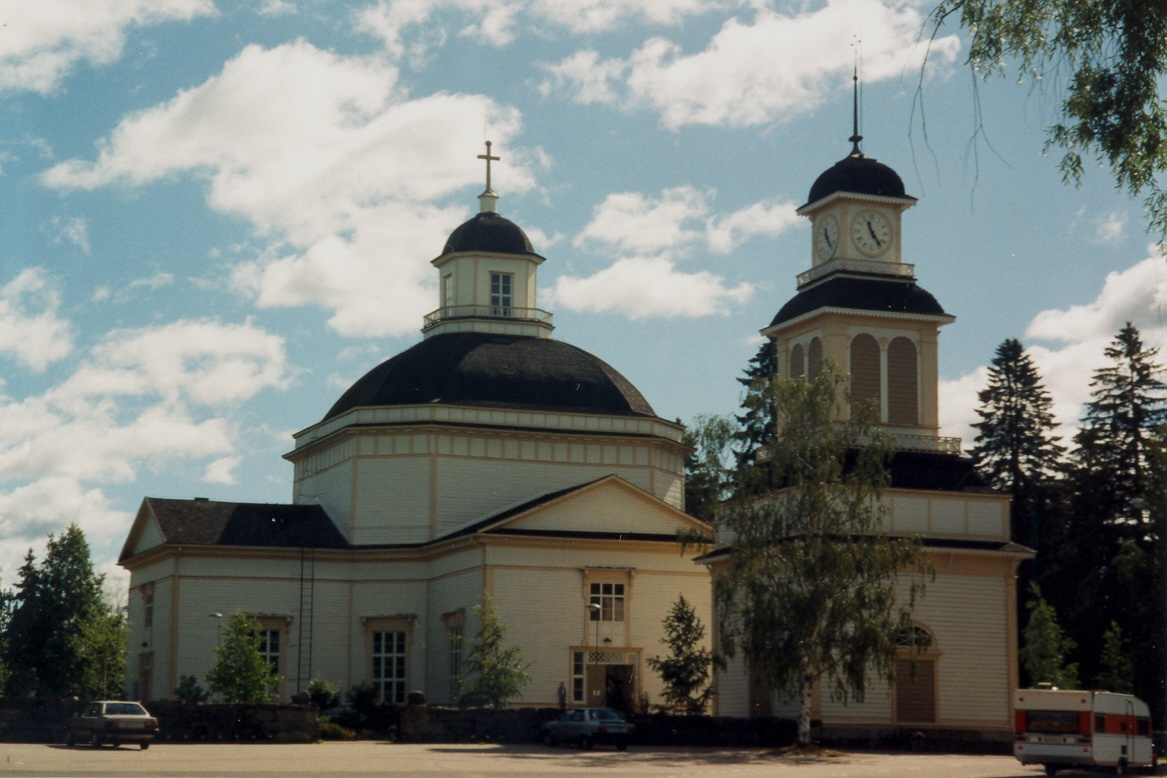 Alajärvi Church, located in Alajärvi, Finland, in summer 1996. The wooden church was build in 1836 and it was designed by architect Carl Ludvig Engel.